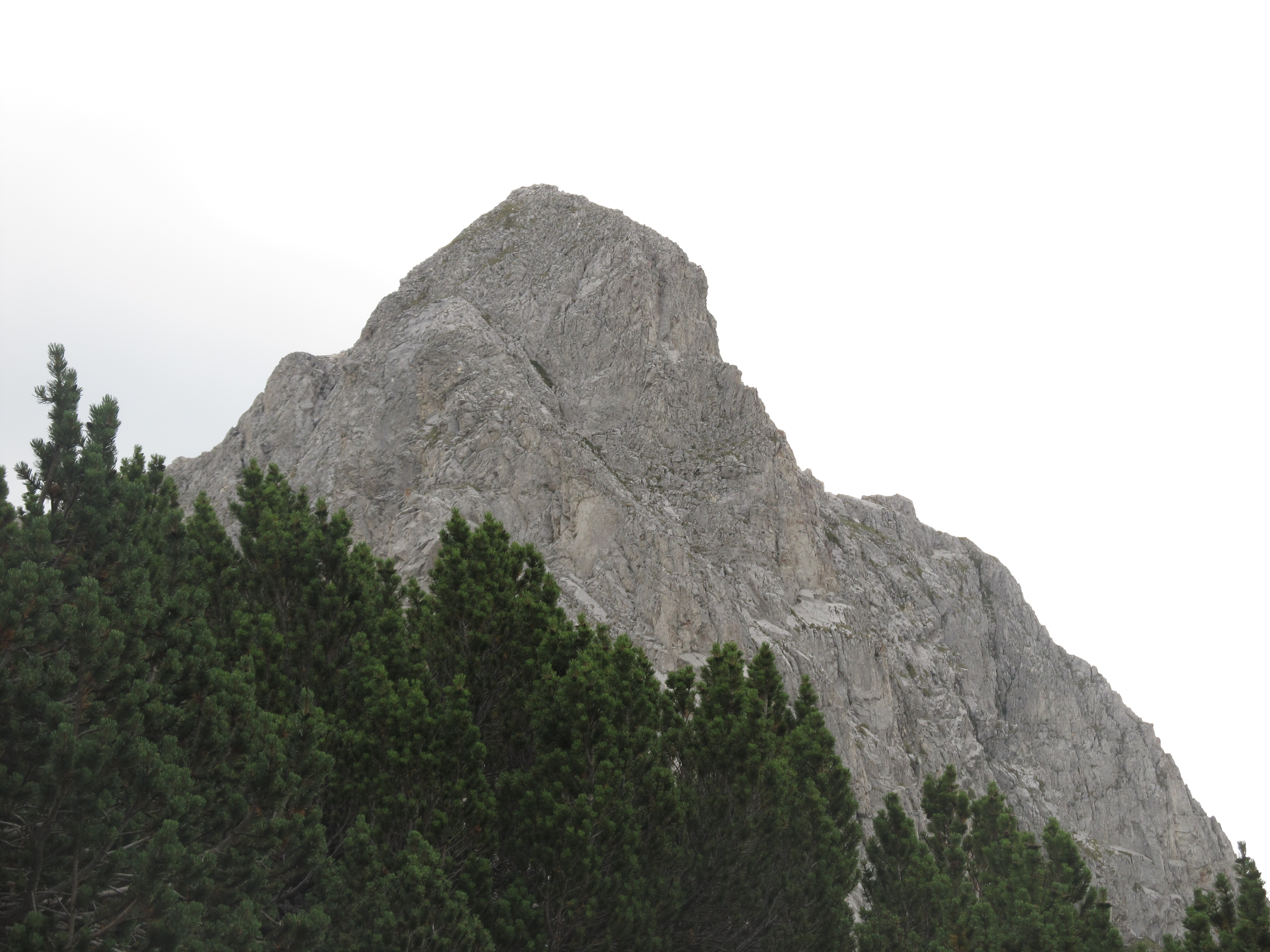 Momin vrah peak, Pirin, Bulgaria